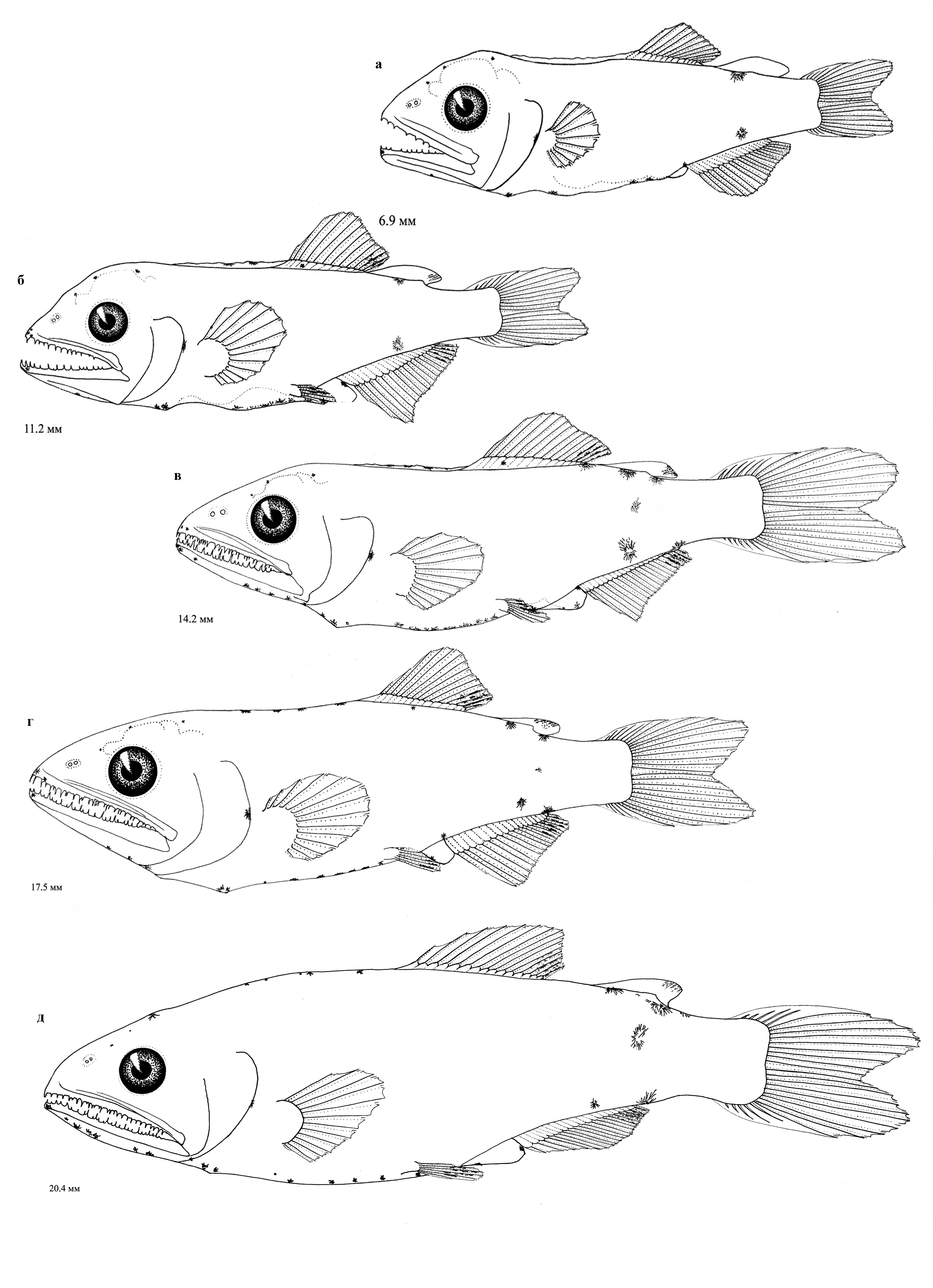 Larvae of Lampanyctus intricarius